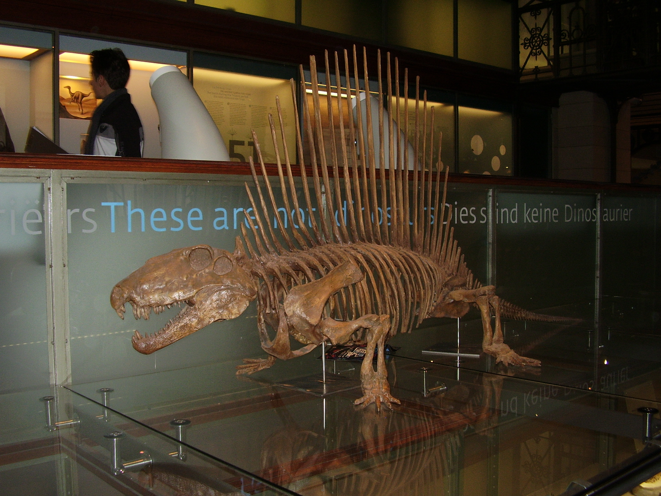 Skeleton of Dimetrodon in Brussels Natural history museum.